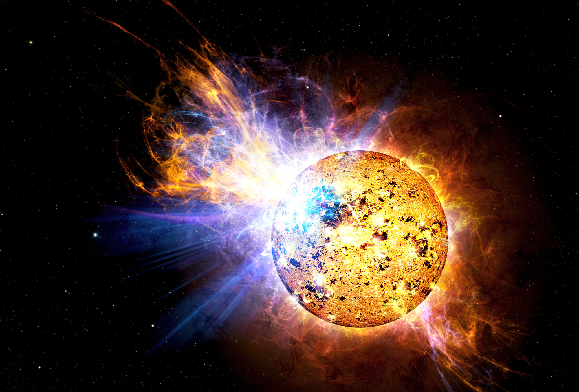 Featured image of NASA. Explosión de EV Lacertae: For many years scientists have known that our sun gives off powerful explosions, known as flares, that contain millions of times more energy than atomic bombs. But when astronomers compare flares from the sun to flares on other stars, the sun's flares lose. On April 25, 2008, NASA's Swift satellite picked up a record-setting flare from a star known as EV Lacertae. This flare was thousands of times more powerful than the greatest observed solar flare. But because EV Lacertae is much farther from Earth than the sun, the flare did not appear as bright as a solar flare. Still, it was the brightest flare ever seen from a star other than the sun. What makes the flare particularly interesting is the star. EV Lacertae is much smaller and dimmer than our sun. In other words, a tiny, wimpy star is capable of packing a very powerful punch. How can such a small star produce such a powerful flare? The answer can be found in EV Lacertae's youth. Whereas our sun is a middle-aged star, EV Lacertae is a toddler. The star is much younger than our sun, and is still spinning rapidly. The fast spin, together with its churning interior, whips up gases to produce a magnetic field that is much more powerful than the sun's magnetic field.